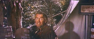 Cropped screenshot of James Stewart from the trailer for the film How the West Was Won